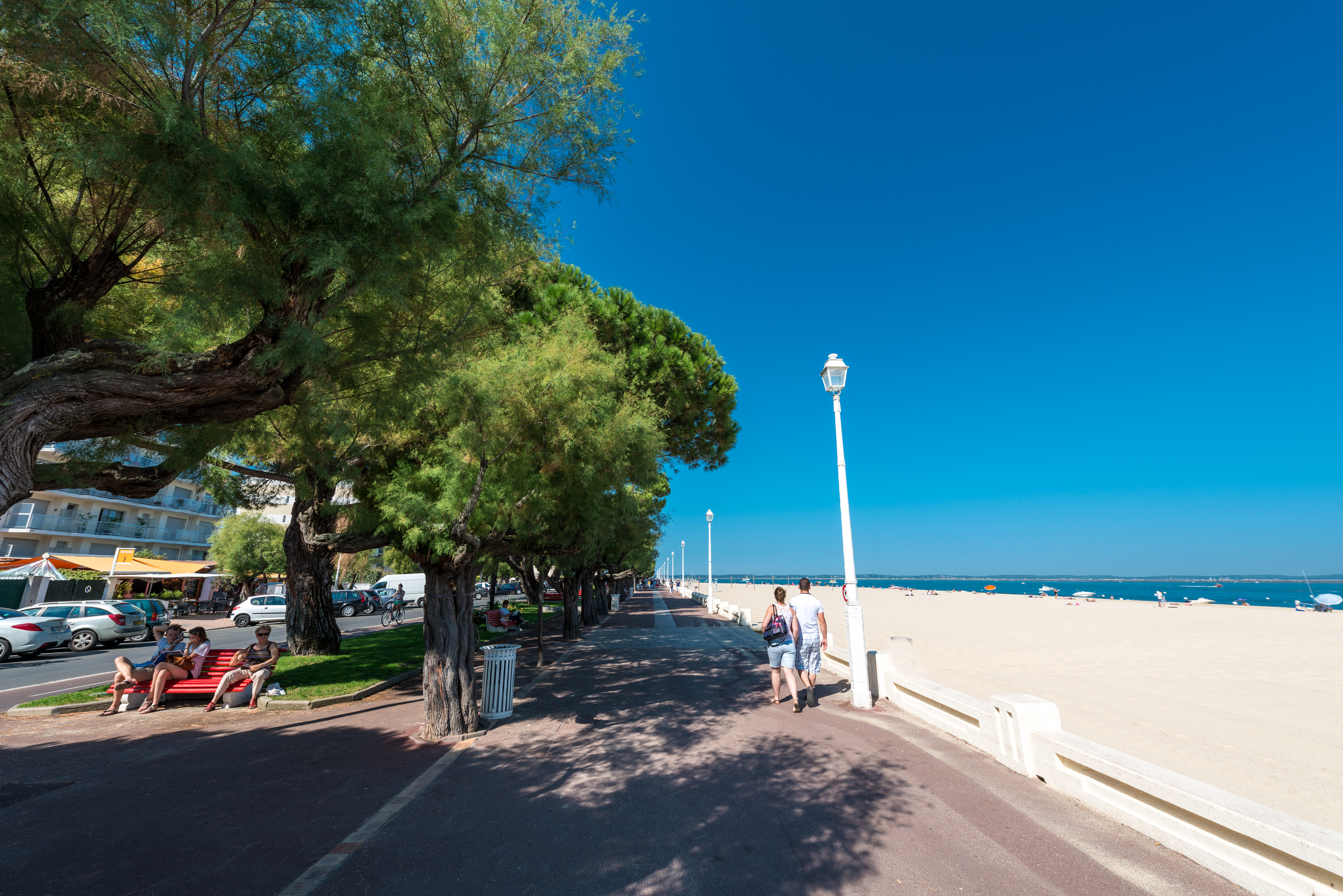 The typical walk in Arcachon.